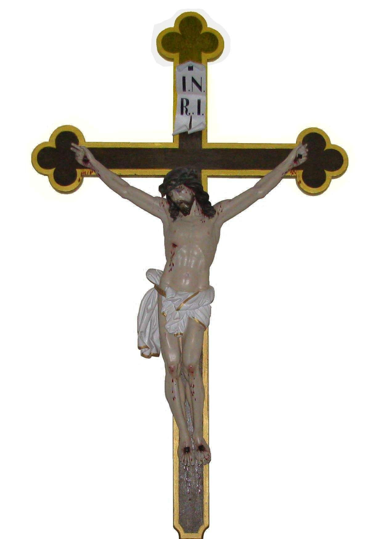 An old cross in the parish church in Selca, Slovenia.